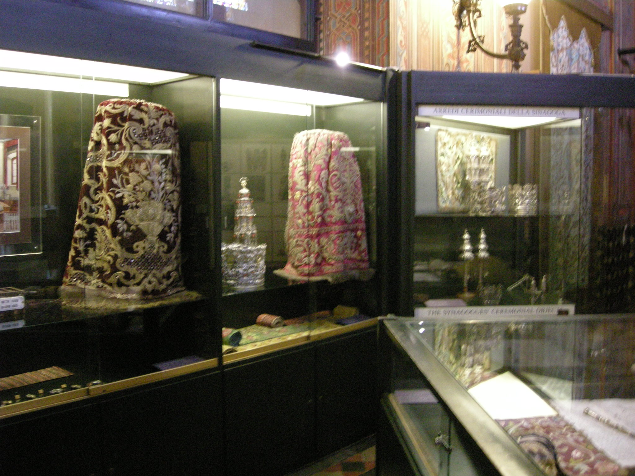 Ketarim, Rimmonim and Parokhiot at Florence Synagogue Musem